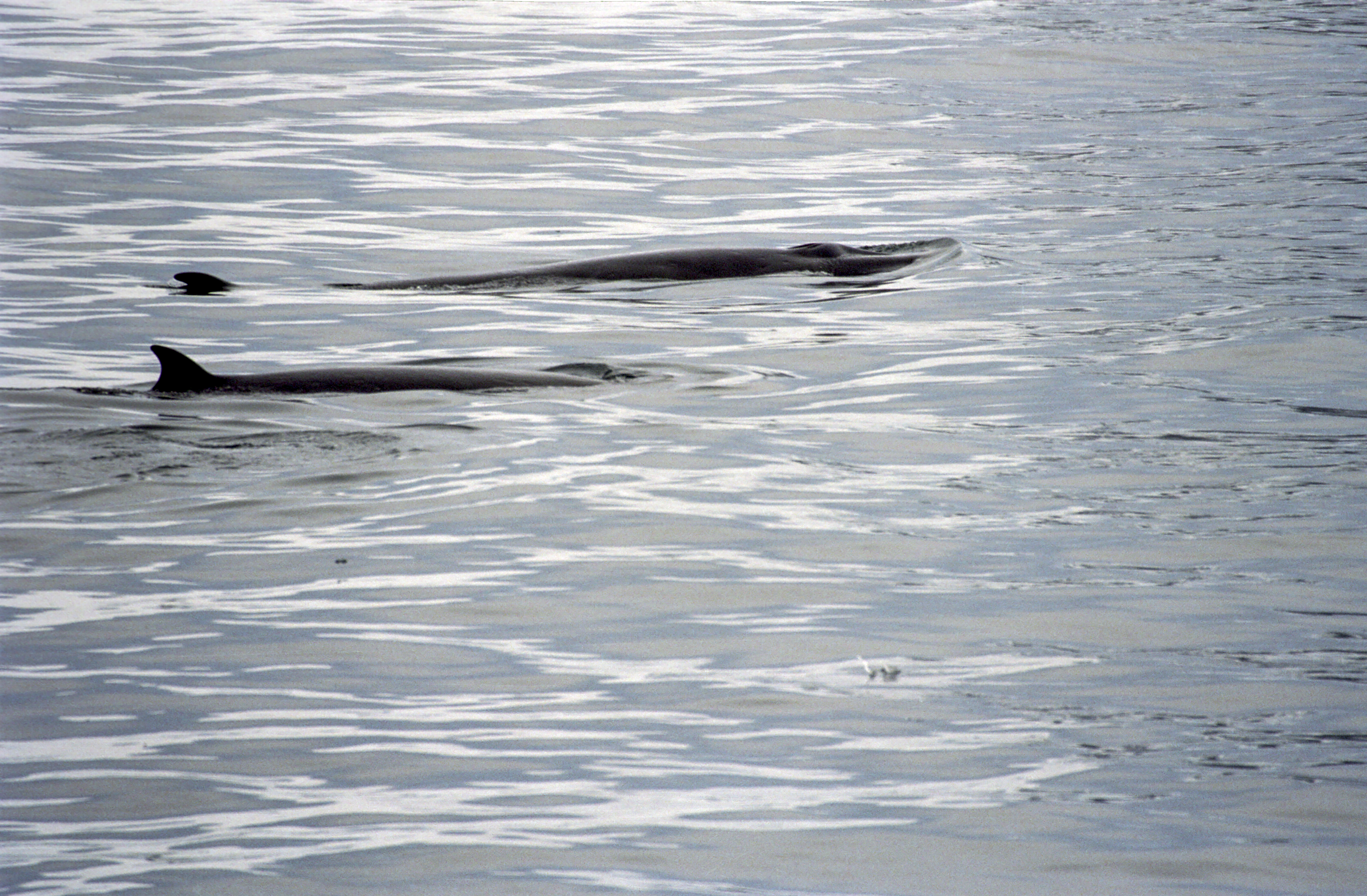 Two antarctic minke whales (Balaenoptera bonaerensis) in the Antarctic.